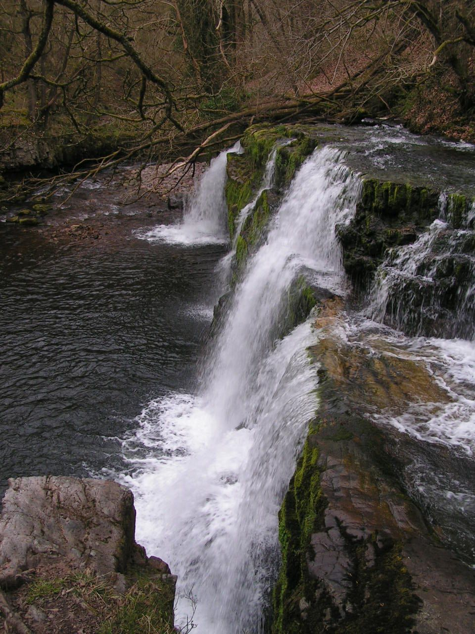 Sgŵd y Pannwr, a waterfall on the Afon Mellte near Ystradfellte in the Brecon Beacons National Park . Photograph taken 17th April 2005.